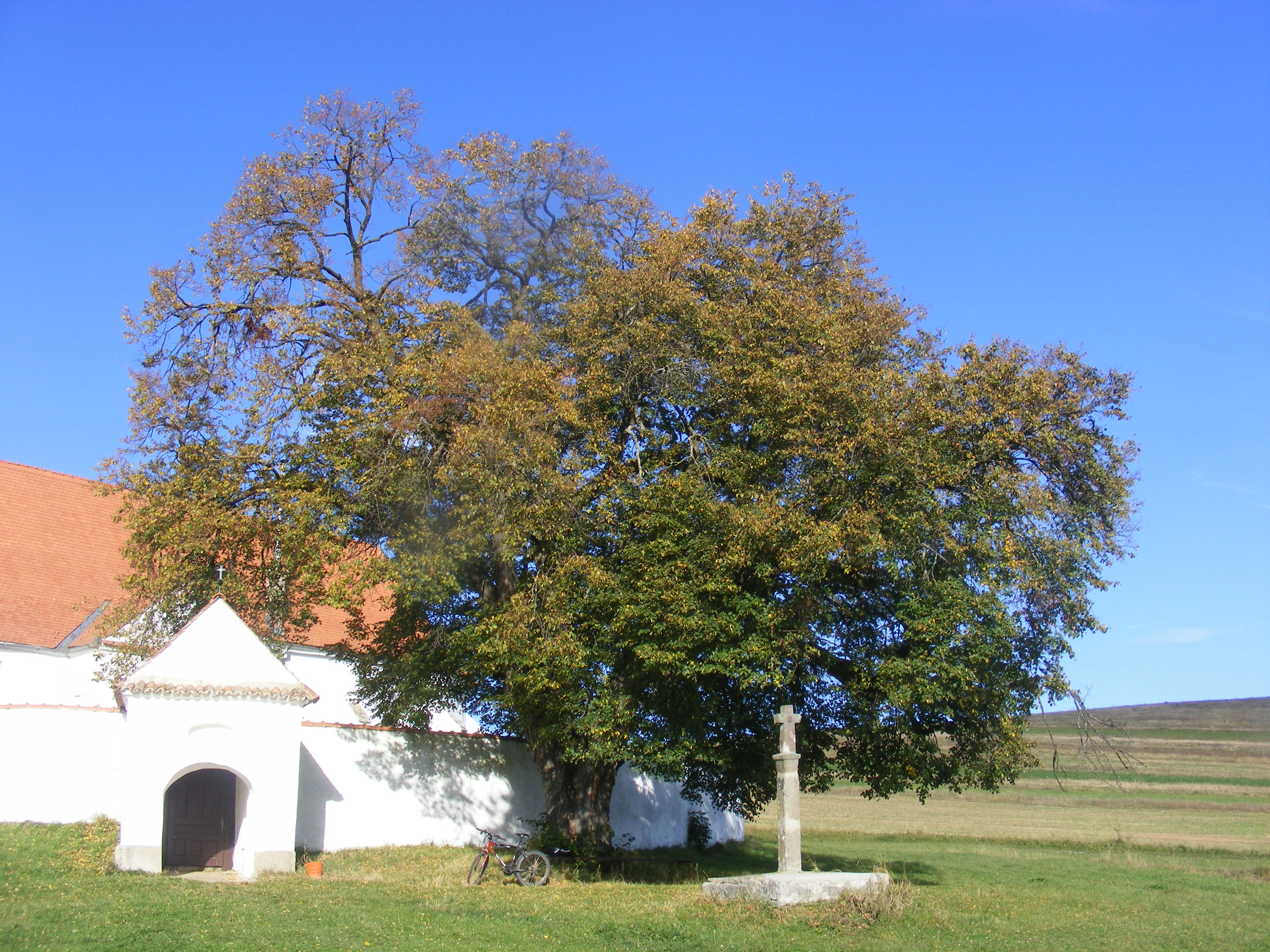 The oldest tree in Csík seat, near Csíkszentlélek (Leliceni)